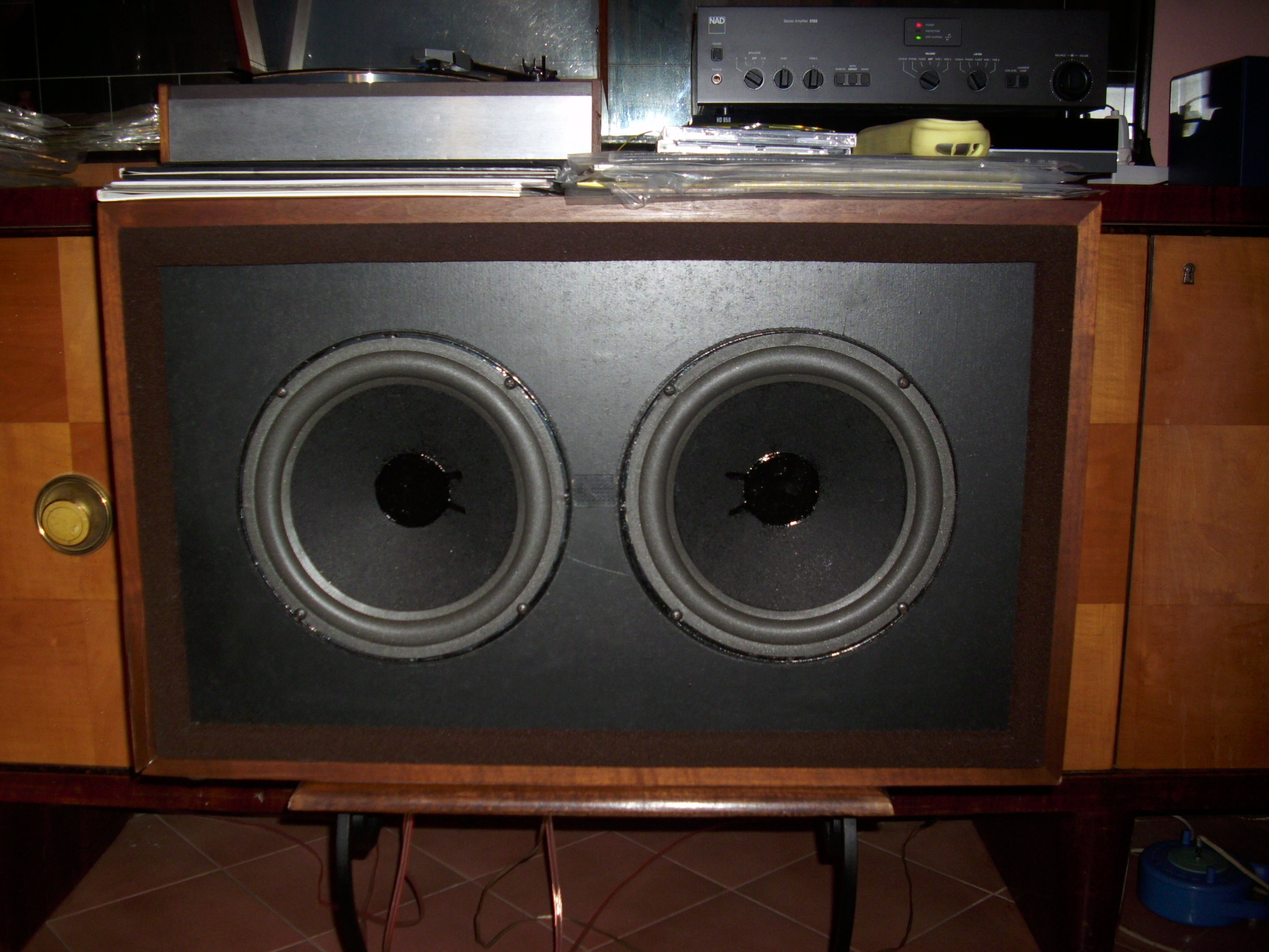 Cizek Sub-Woofer MG27 (my own speaker)